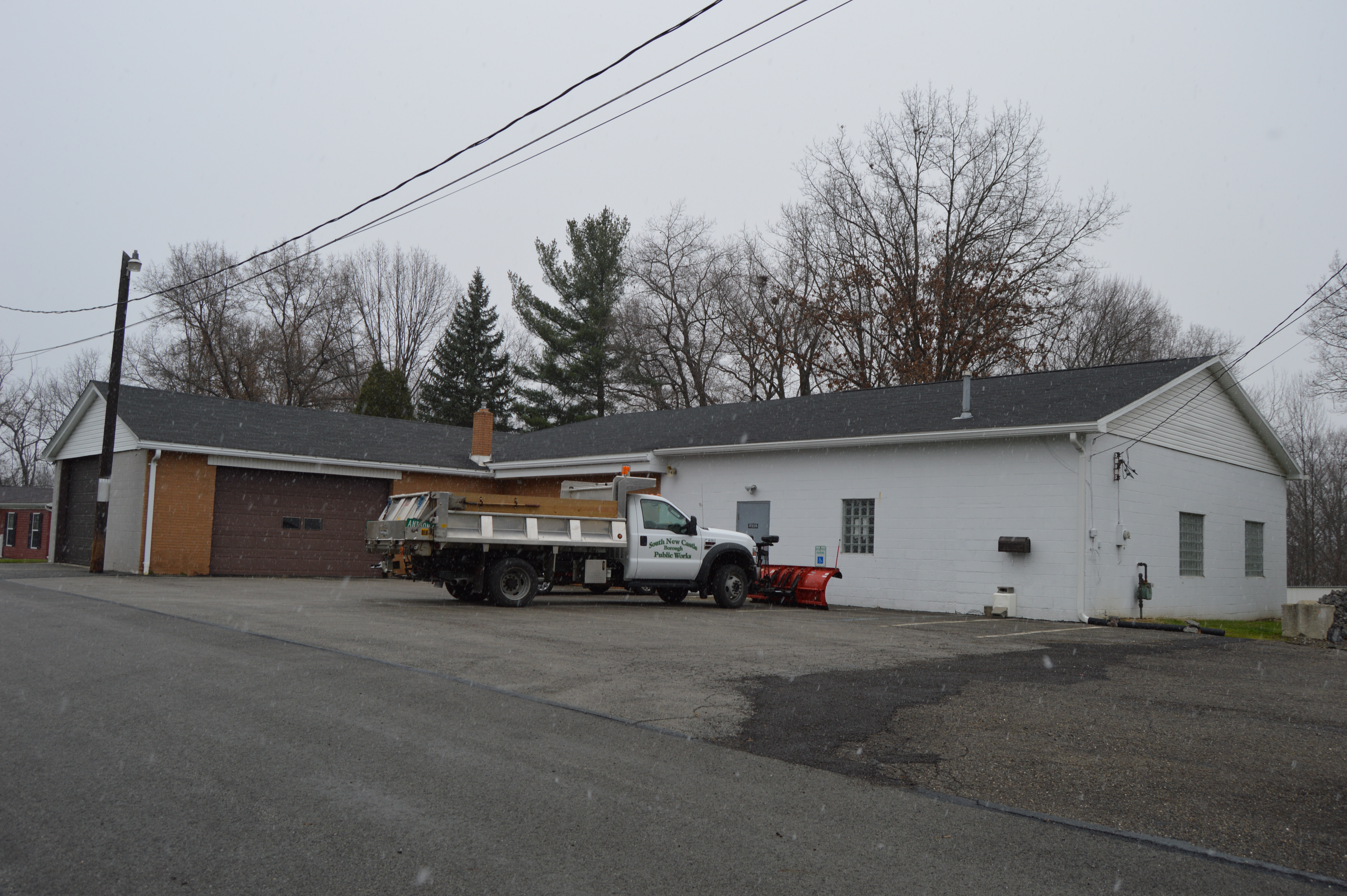 Front and southern side of the South New Castle municipal building, located at 2300 Adella Street in South New Castle, Pennsylvania, United States.